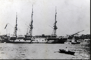 Ottoman frigate Ertuğrul